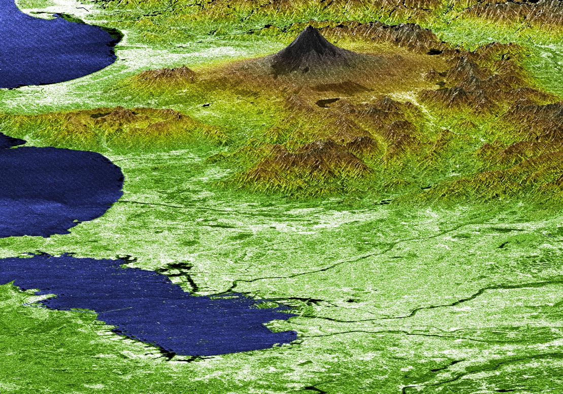 Perspective View with Radar Image Overlaid, Color as Height: Mt. Fuji and Tokyo, Japan